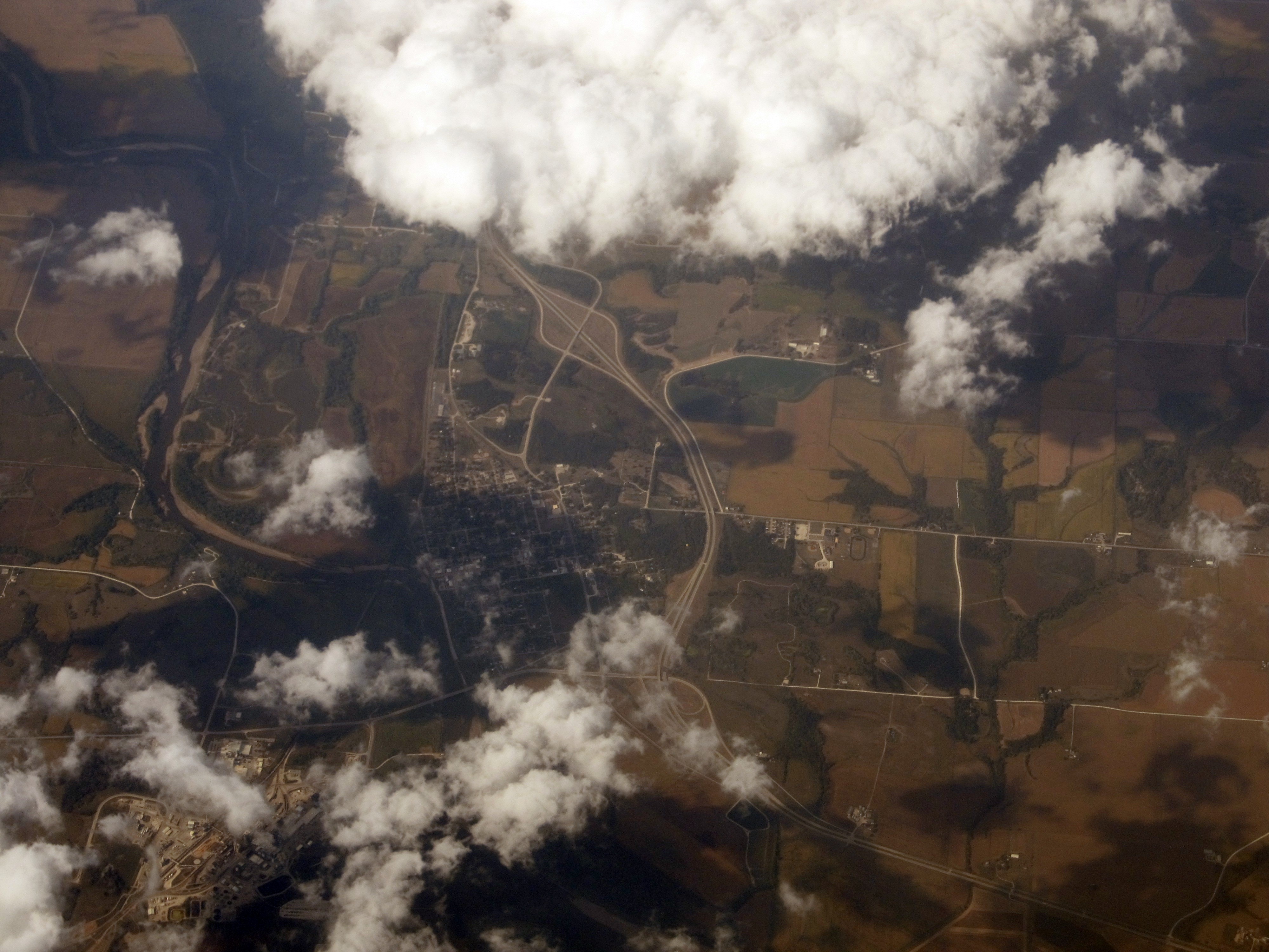 Eddyville is a city in Mahaska, Monroe, and Wapello Counties in the U.S. state of Iowa. The population was 1,024 at the 2010 census. The first commercial coal mines in Wapello County were opened near Eddyville. Several 'coal banks' were in operation in 1857, including the Roberts Mine, directly across the Des Moines River from town. These mines worked coal seams exposed on the hillsides of the river valley. The town is located on the north-west bank of the Des Moines River. Cargill has a large corn processing plant here, which dominates the town's skyline. Ethanol, high fructose corn syrup, and gluten are among its products. Across the street, Ajinomoto has a plant that turns the gluten into mono-sodium glutonate.